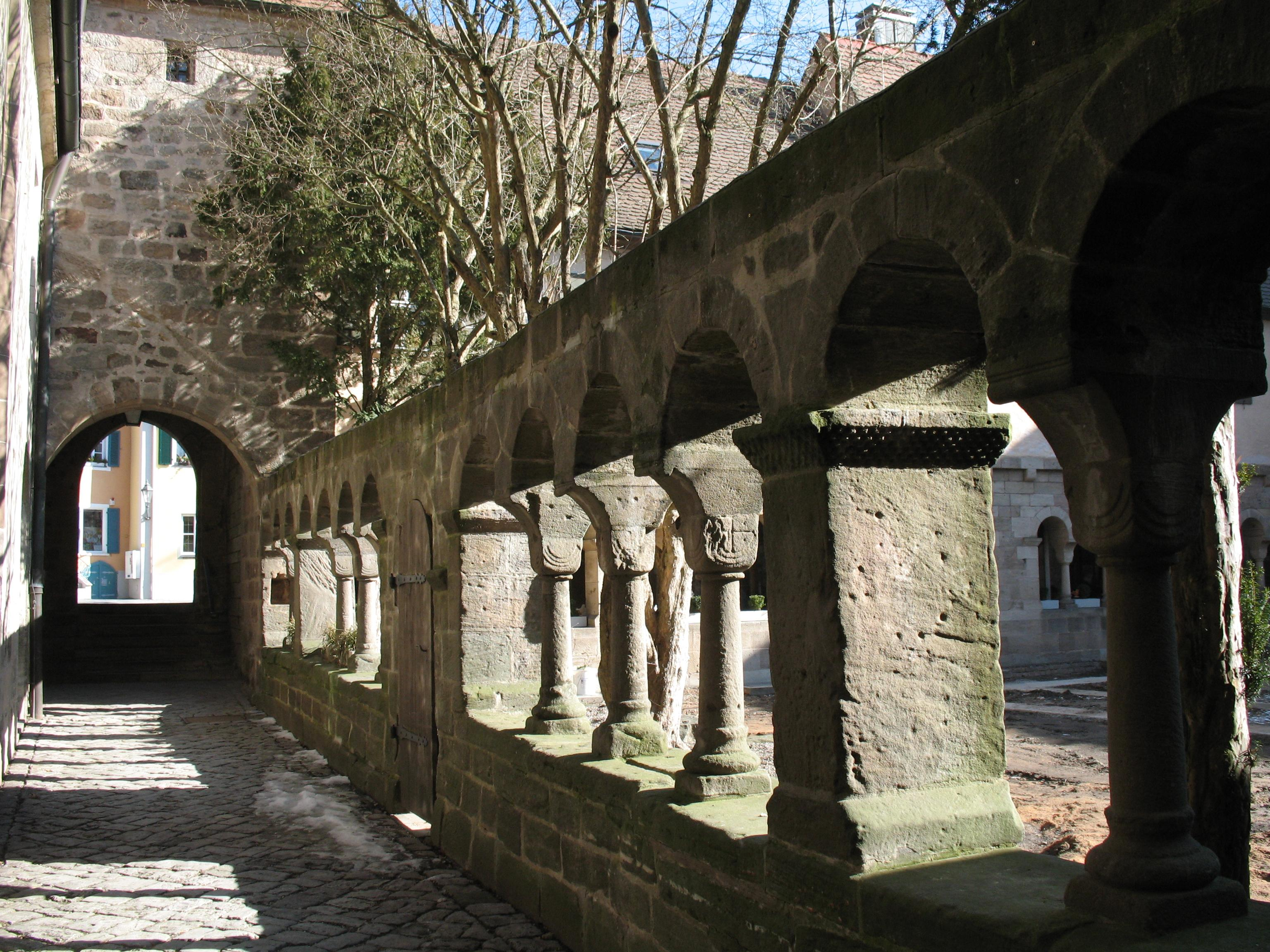 Cloister in Feuchtwangen in Bavaria, Germany